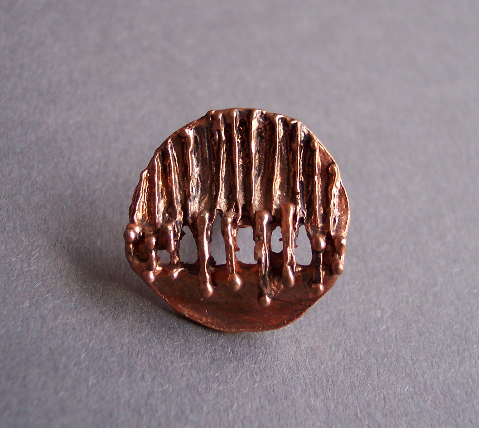 cufflink made in Idar-Oberstein, Germany, about 1965